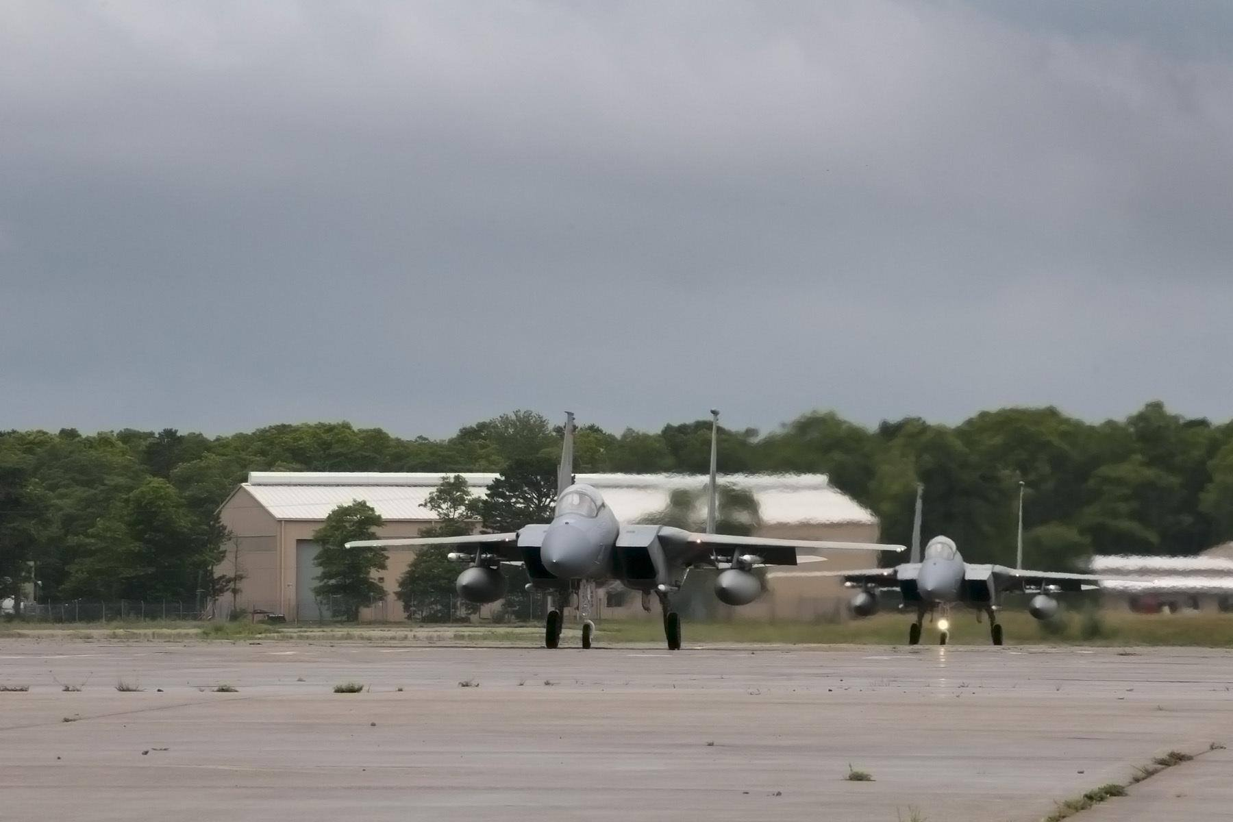 The fighter jets that once flew the skies of Cape Cod have returned today, but only temporarily while major runway repairs are being conducted at Barnes Air National Guard Base, home the 104th Fighter Wing. The 104th Fighter Wing will maintain its alert posture within the existing alert-infrastructure on Cape Cod while the training missions will fly out of Westover Air Reserve Base. (Air National Guard photo by Tech. Sgt. Kerri Cole/Released)